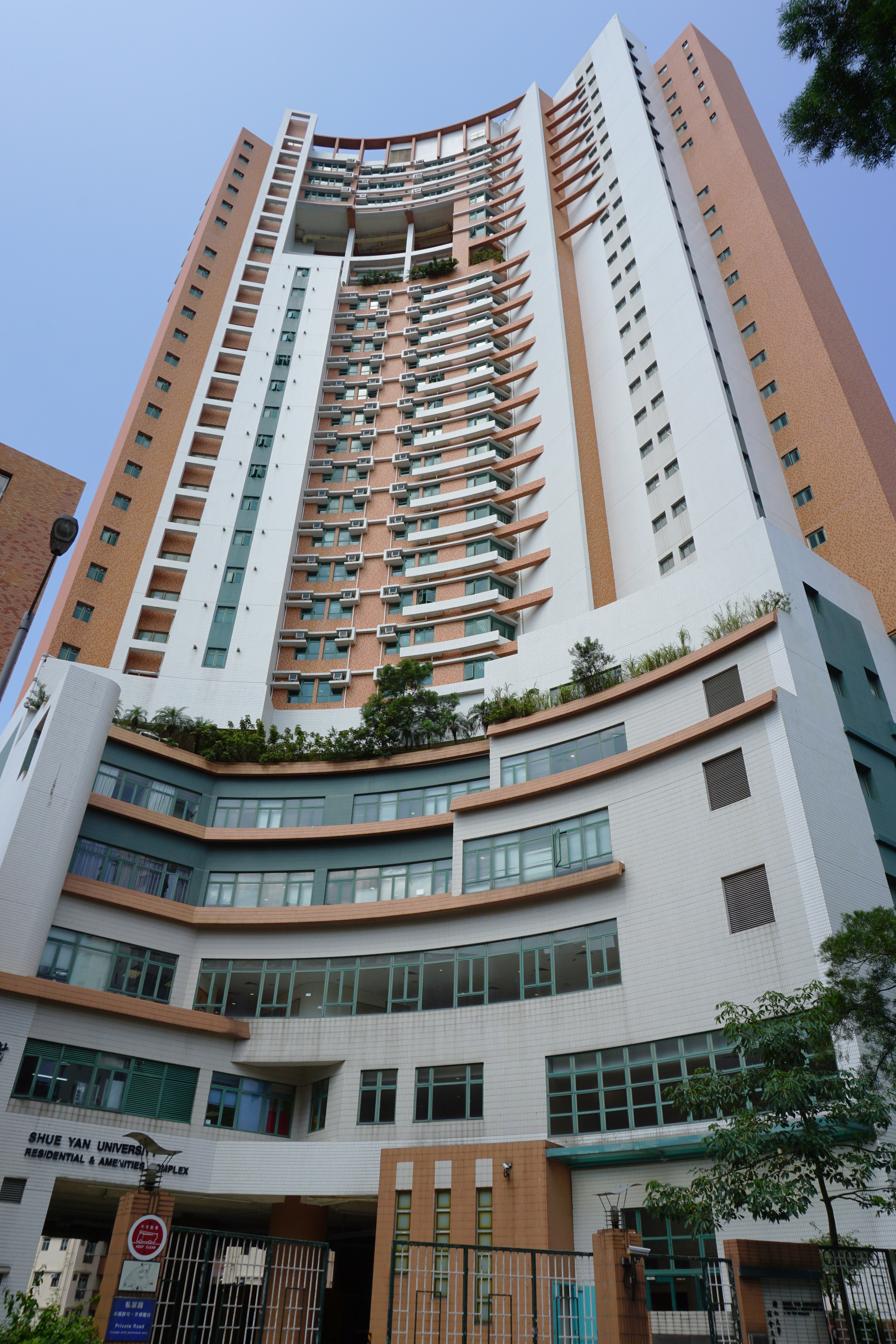 Shue Yan University in Braemar Hill, Hong Kong.